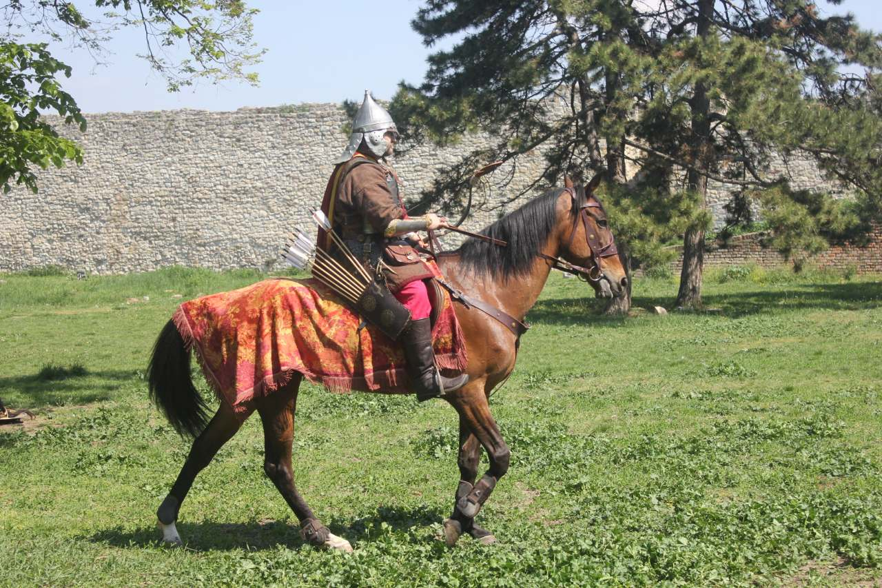 Re-enactor of Mongolian rider on Kalemegdan fortress